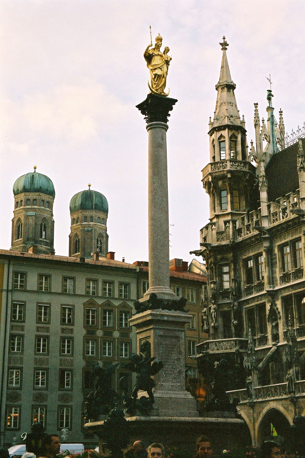 The Marian Column on St. Mary's Place, Munich, in front of Our Lady's Church and the New Townhall